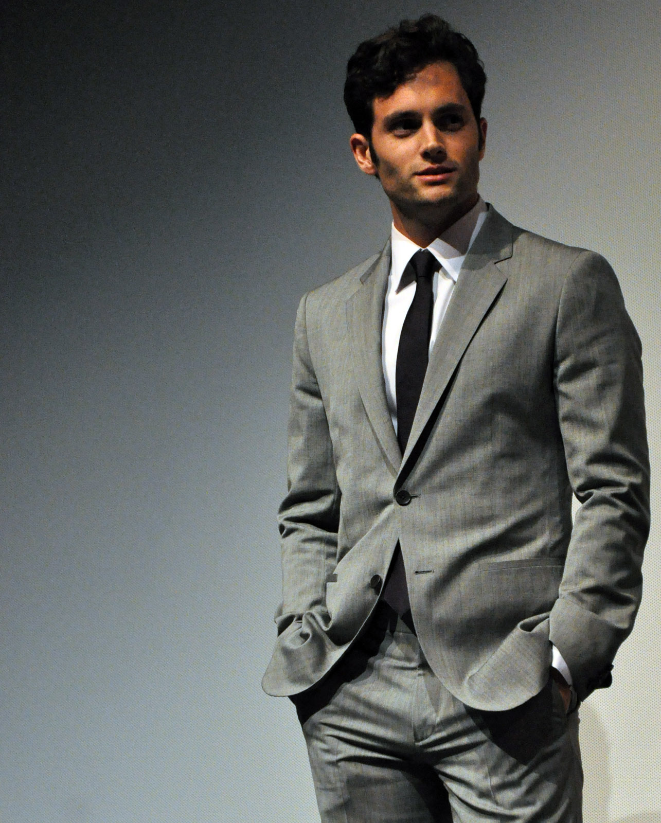 Penn Badgley at the screening of "Easy A" at the 2010 Toronto International Film Festival. (Photo taken September 11, 2010.)